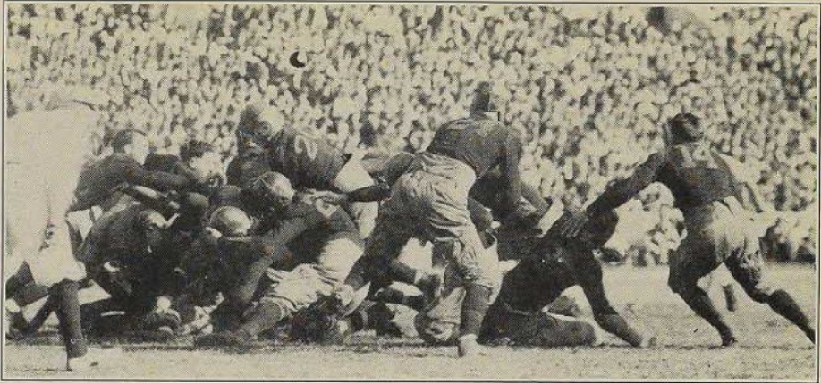 Picture from the game between the Quantico Marines and Vanderbilt Commodores in 1924. Hek Wakefield is 24 on the right.